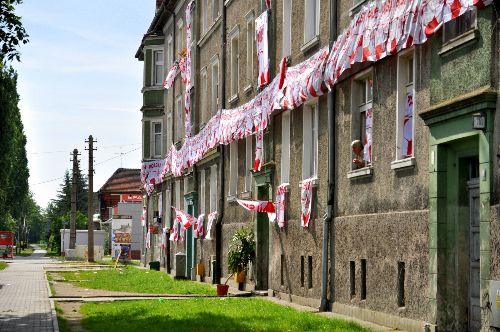 Kobylogórska Street in Gorzów Wielkopolski, Poland